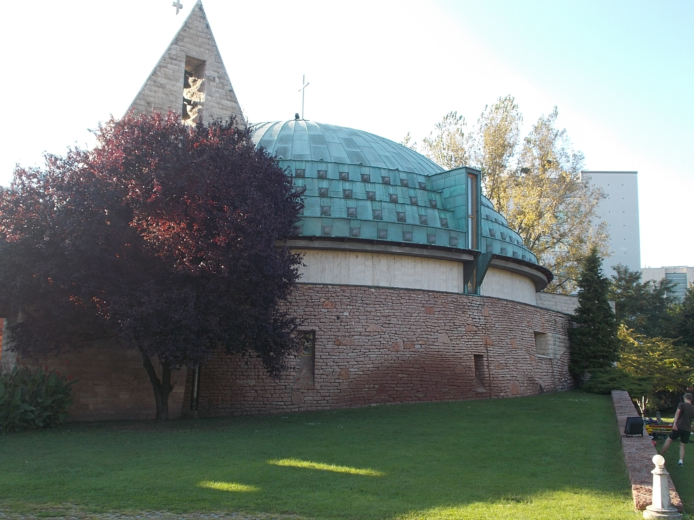 Hungarian Saints Church. - 1 Magyar tudósok körútja, Lágymányos neighborhood, Budapest District XI. Hungary.